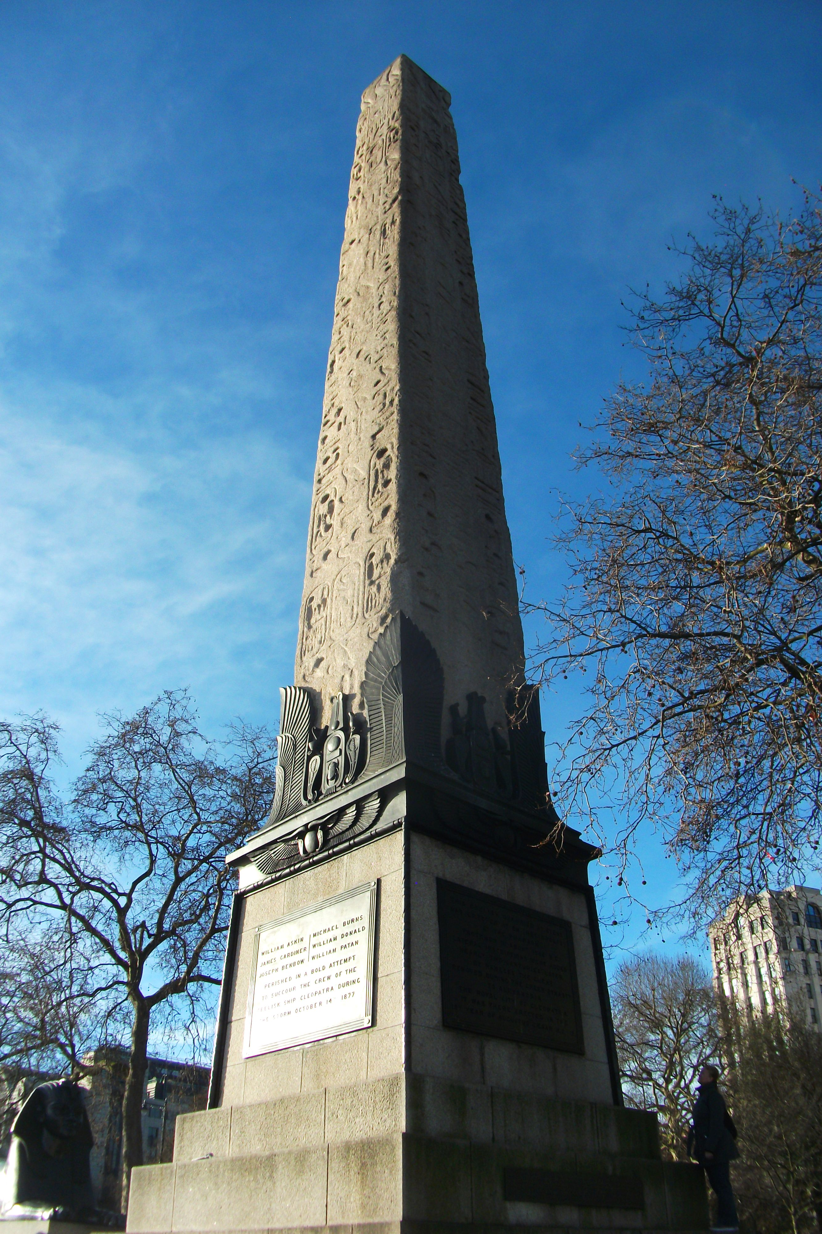 The "Cleopatra's Needle" in London, Victoria Embankment